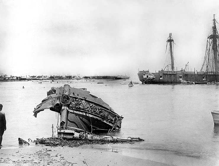 Samoan Hurricane of 15-16 March 1889 Wrecked ships in Apia Harbor, Upolu, Samoa soon after the storm. The view looks northwestward, with the shattered bow of the German gunboat Eber on the beach in the foreground. The stern of USS Trenton is at right, with the sunken USS Vandalia alongside. The German gunboat Adler is on her side in the center distance. Trenton's starboard quarter gallery has been largely ripped away.